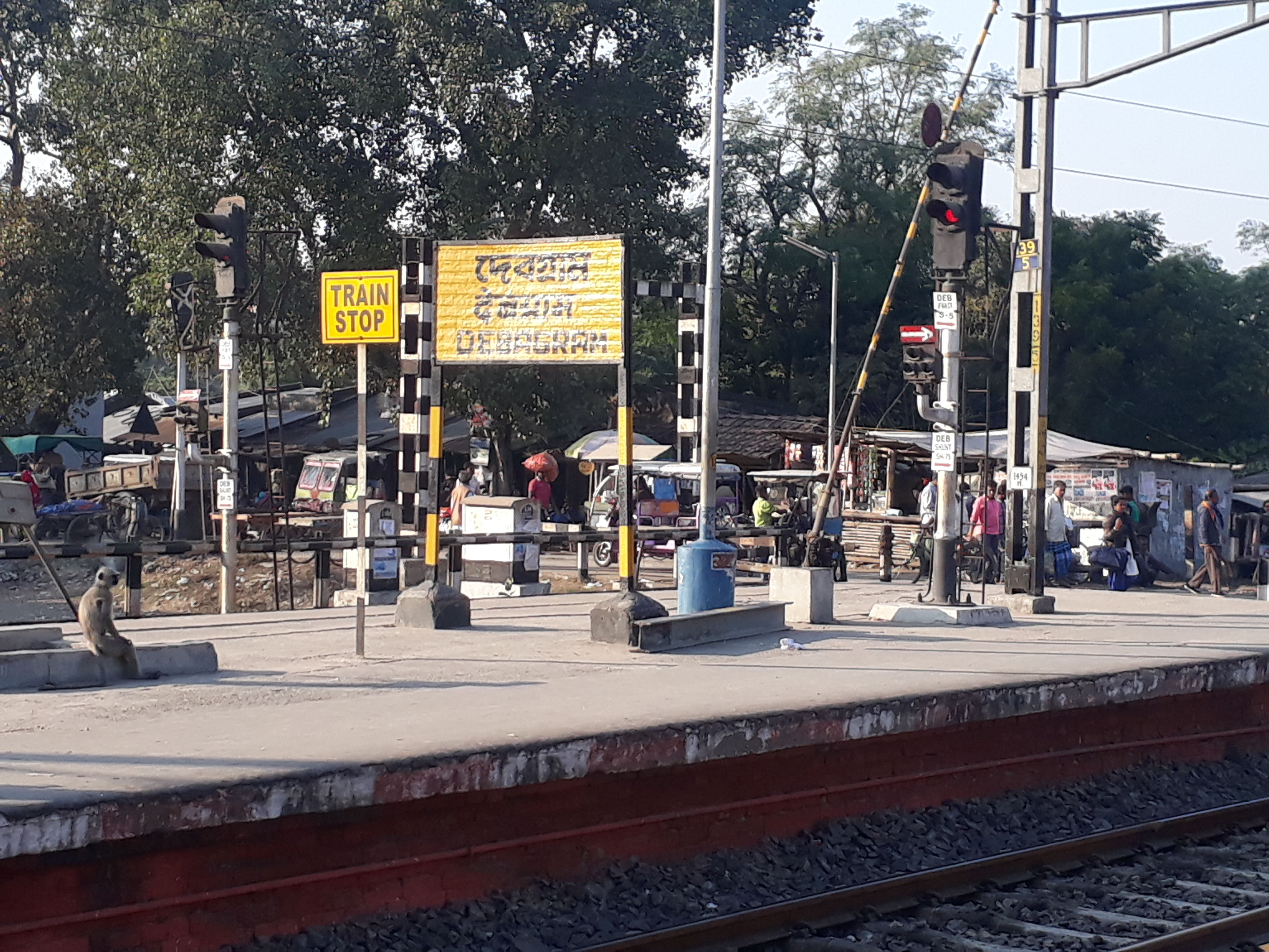 Debagram railway station, a rural railway station in Nadia district in Sealdah Lalgola line, Eastern railway